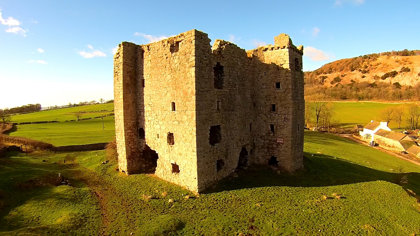 View of two of the partially intact walls of Arnside Tower, seen from the east - Feb 2016